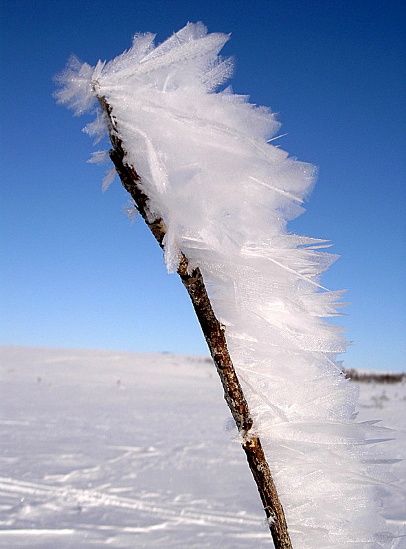 Feather ice on the plateau above Alta, Norway at 70ºN. Forms when night temperature drops below −30°C (i.e. −22°F).